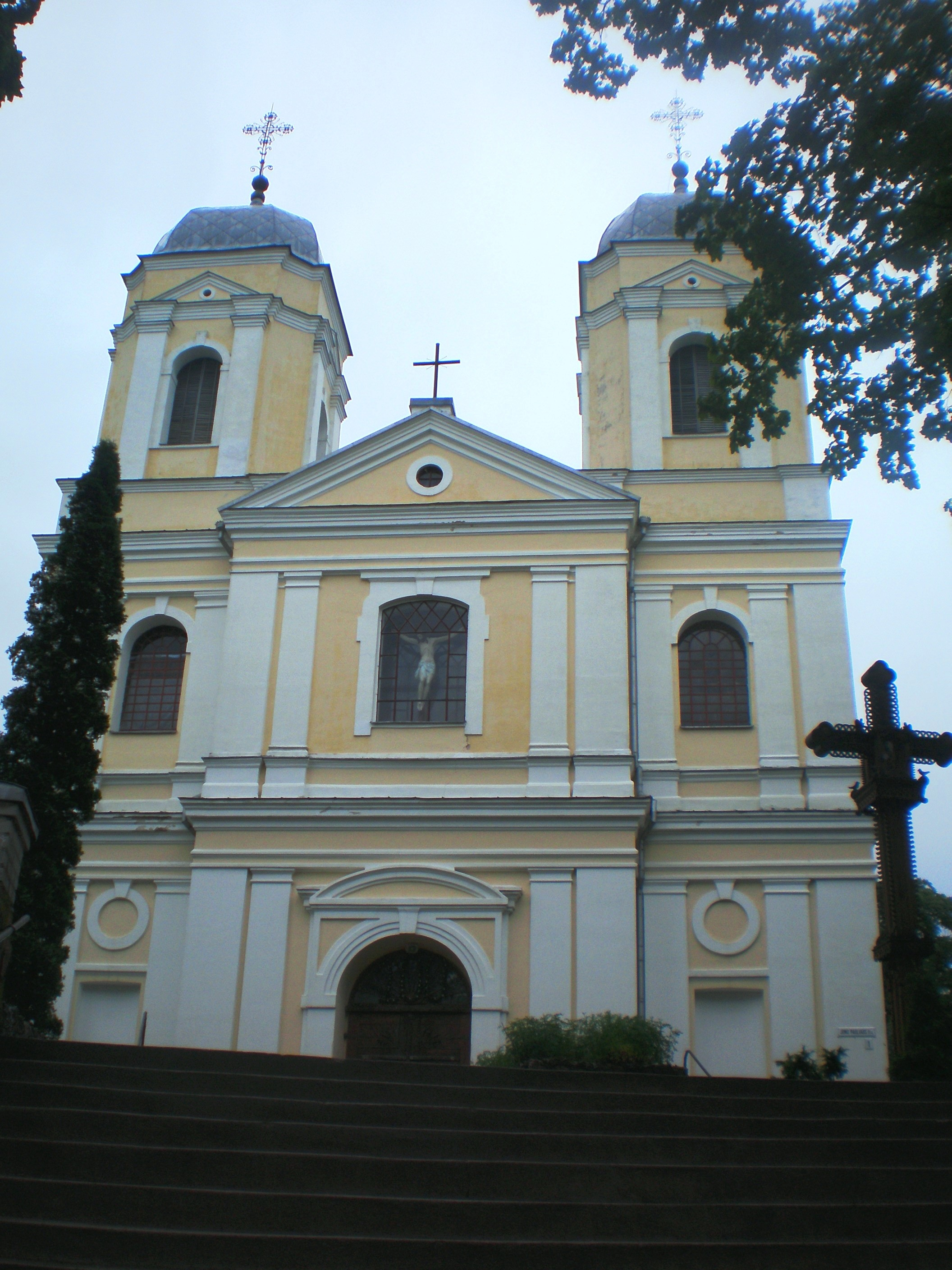 Church of Molėtai city, Lithuania